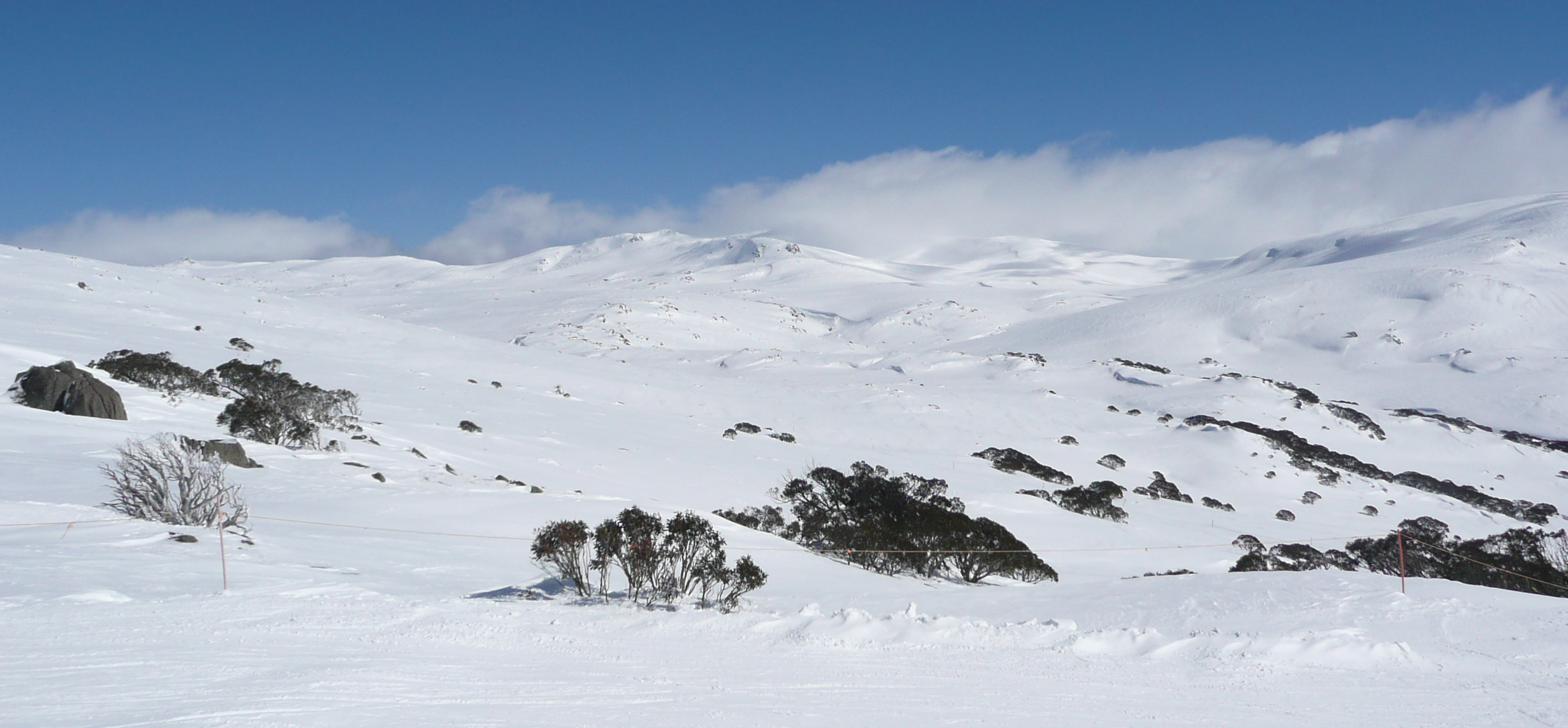 View towards Mount Kosciuszko from Kangaroo Ridge at Kangaroo Ridge Triple Chair top station in winter.